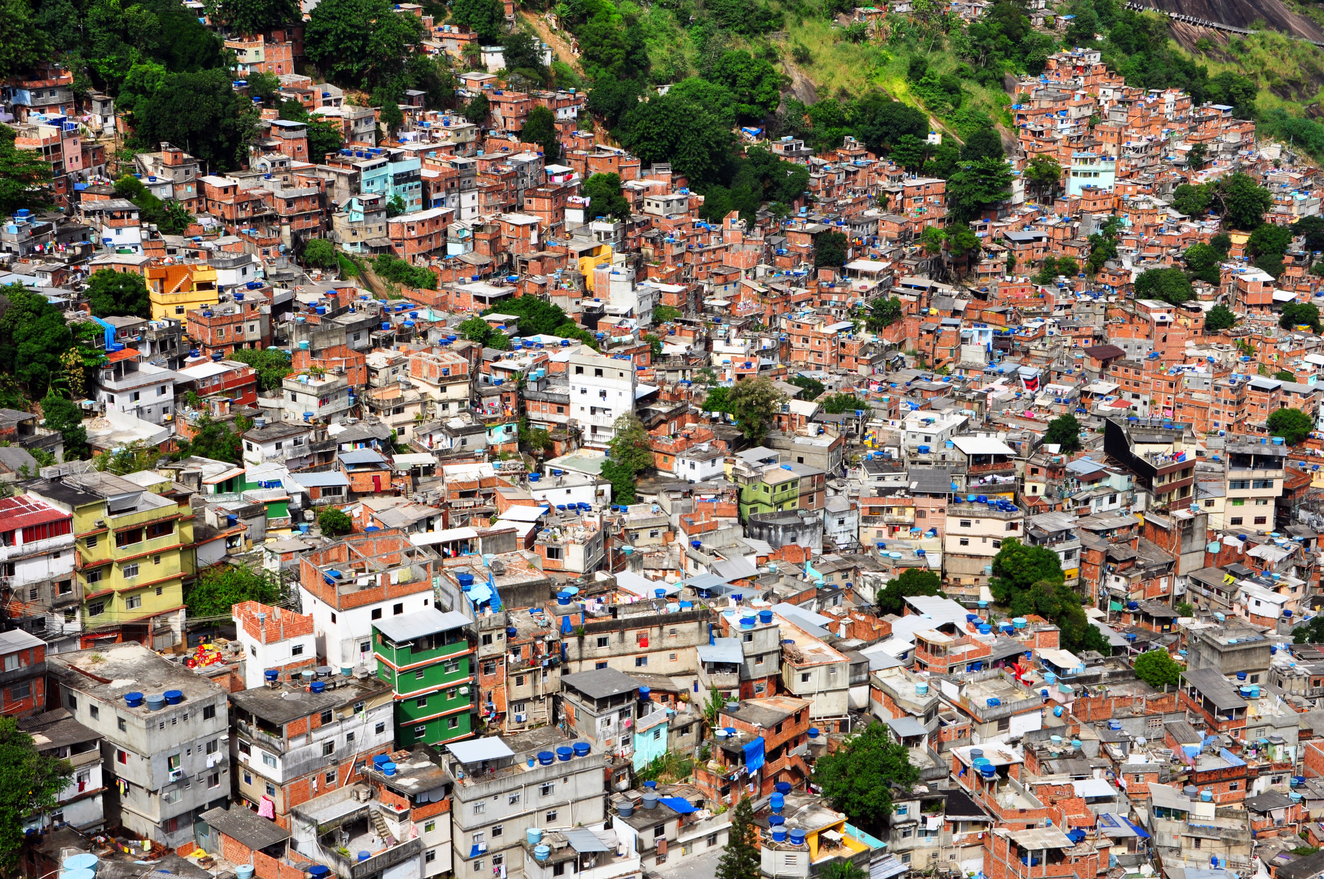 Inside Rocinha favela, Rio de Janeiro, Brazil, 2010